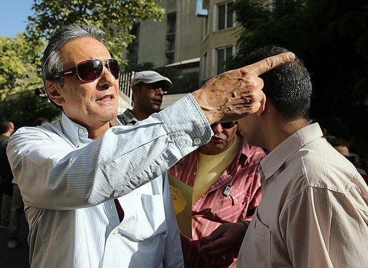 Homayoun Ershadi - 2013